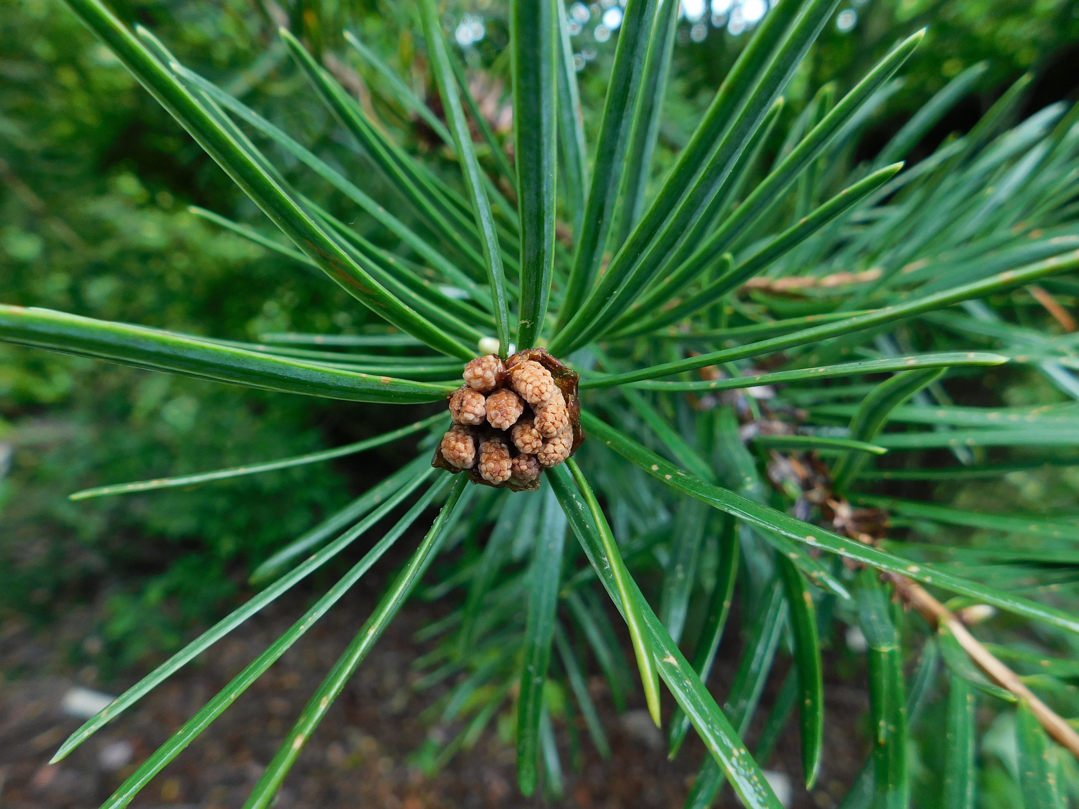 Keteleeria evelyniana at the University of California Botanical Garden, Berkeley, California, USA. Identified by the garden signage.